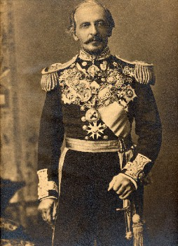 Lord Dufferin, in the regalia of the Viceroy of India, Photo by Bourne and Shepherd of Calcutta. Nineteenth-century albumen print.